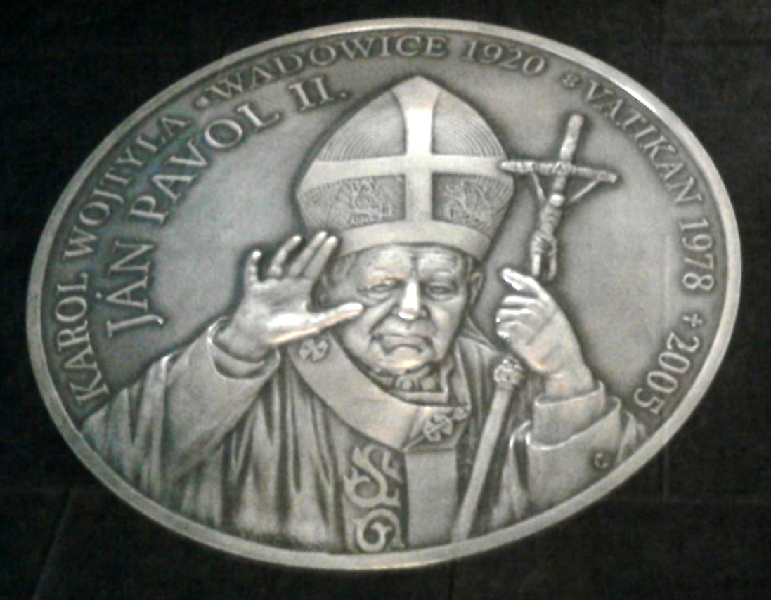 Medal Pope John Paul II in Kremnica mint